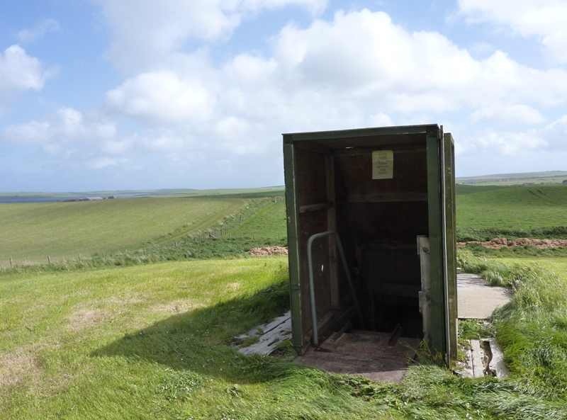 Mine Howe, Tankerness, Mainland, Orkney, Scotland. Modern entrance.